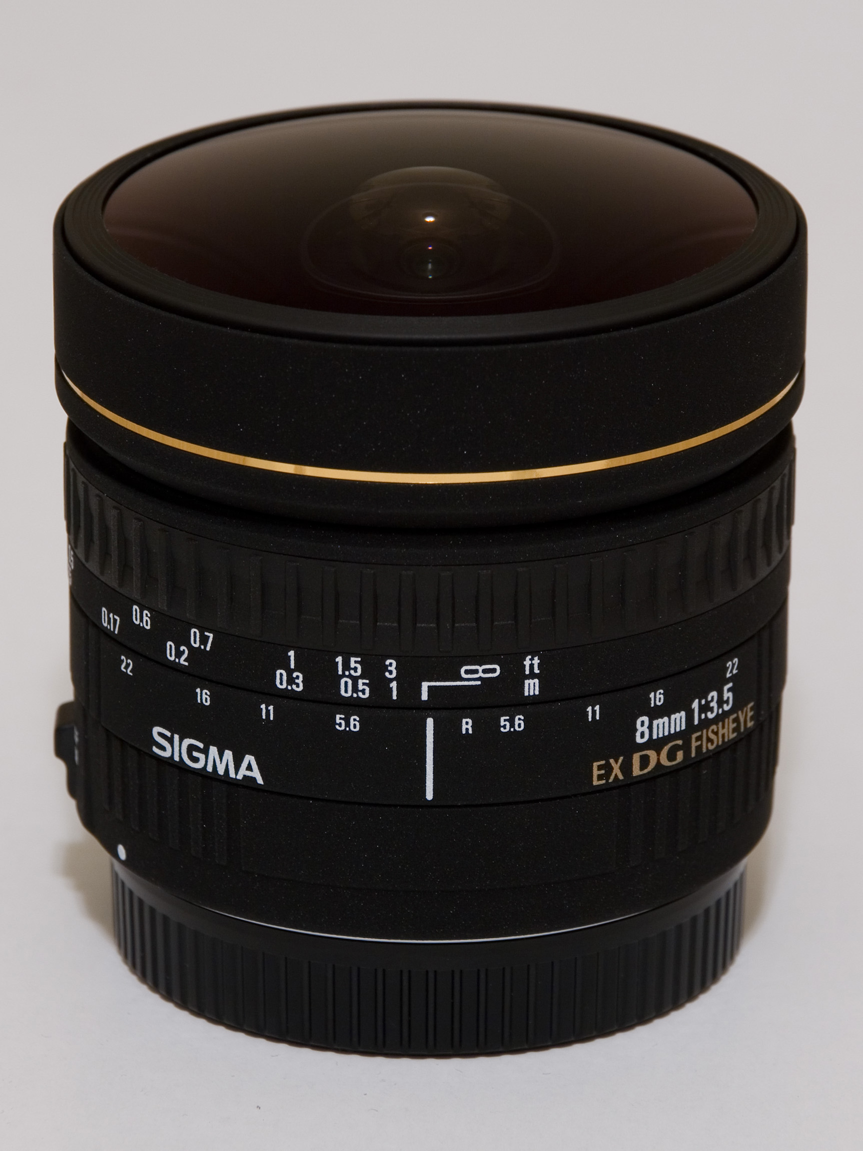 Sigma 8mm f/3.5 EX DG lens with a Canon EF lens mount. Camera used was a Canon 400D.